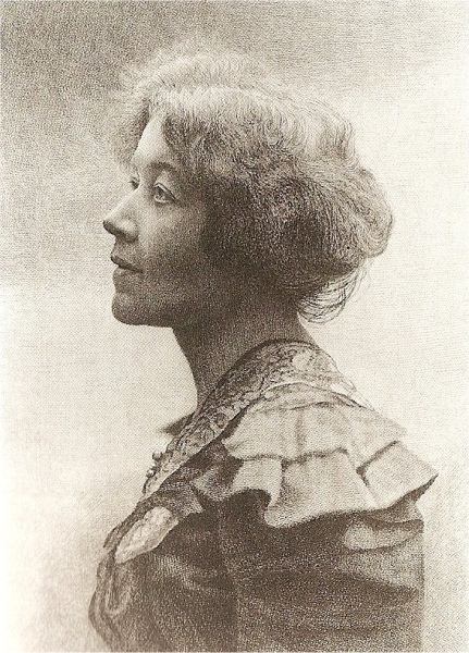 Writer Ricarda Huch, etching by Johann Lindner, 1904, after a photography of Atelier Elvira 1901